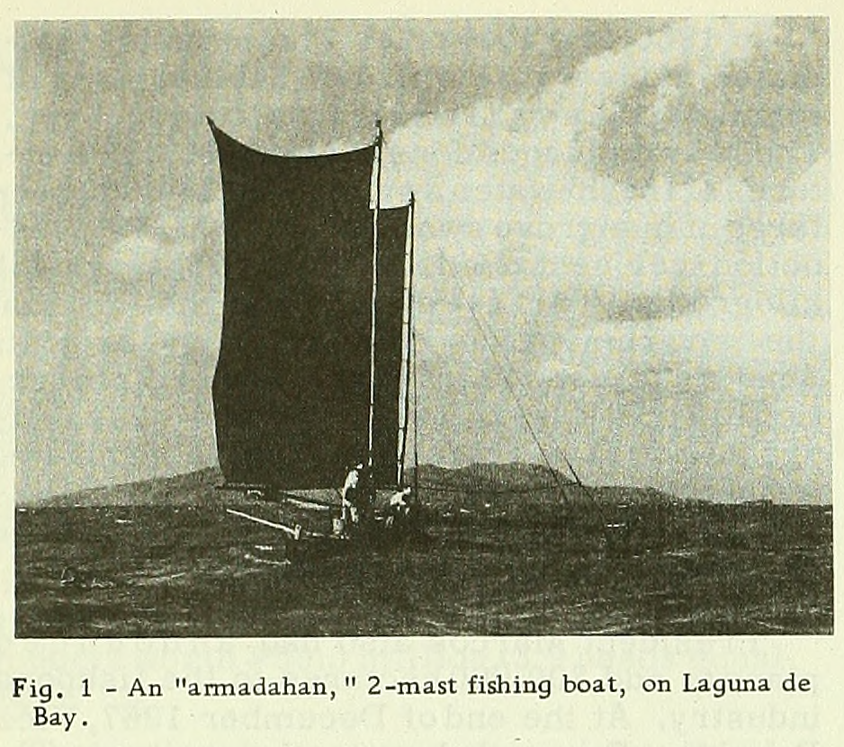 An armadahan, a two-mast sailing boat from Laguna de Bay